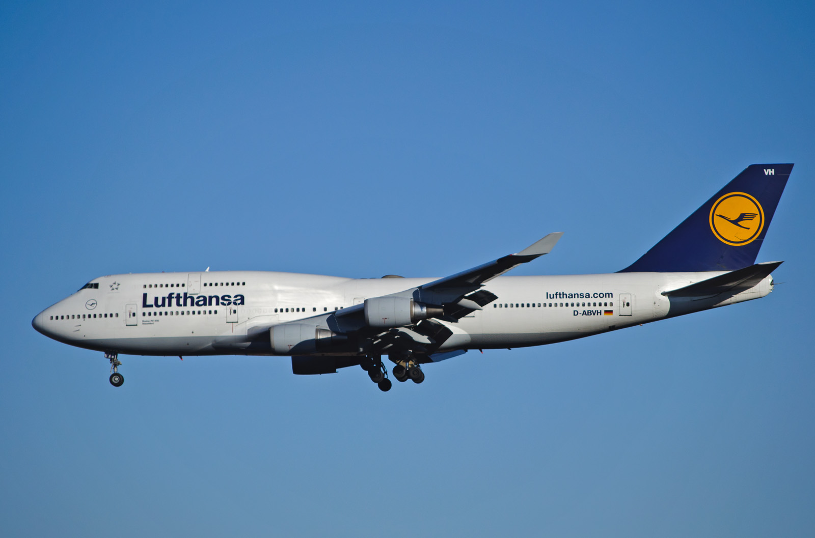 I am visiting the Udvar-Hazy Center, the annex for Smithsonian National Air and Space Museum located on the grounds of Dulles Airport. It is also an excellent place for planespotting - especially for aircraft landing on 1R. Due to the bitter cold outside, this photo was taken inside the museum's tower, so there is a bit of loss in picture quality. Lufthansa 418 arrives from Frankfurt. Although this had been the inaugural route for the Boeing 747-8, Lufthansa has gone back to the venerable 747-400 fleet for now. This particular example dates from 1991. D-ABVH "Düsseldorf," Boeing 747-400